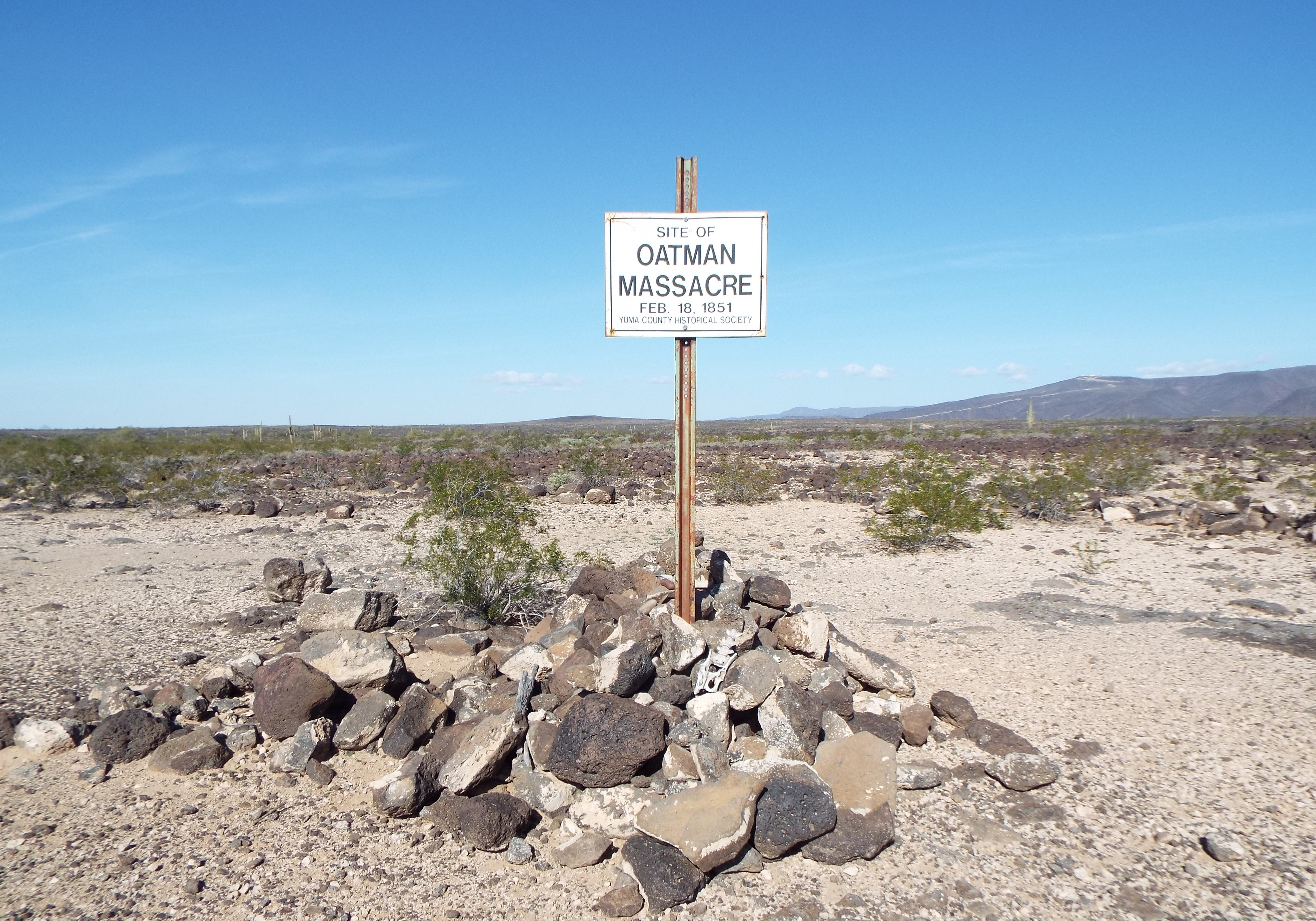 The 1851 Oatman Family Massacre site on Oatman Flats in Dateland, Az.